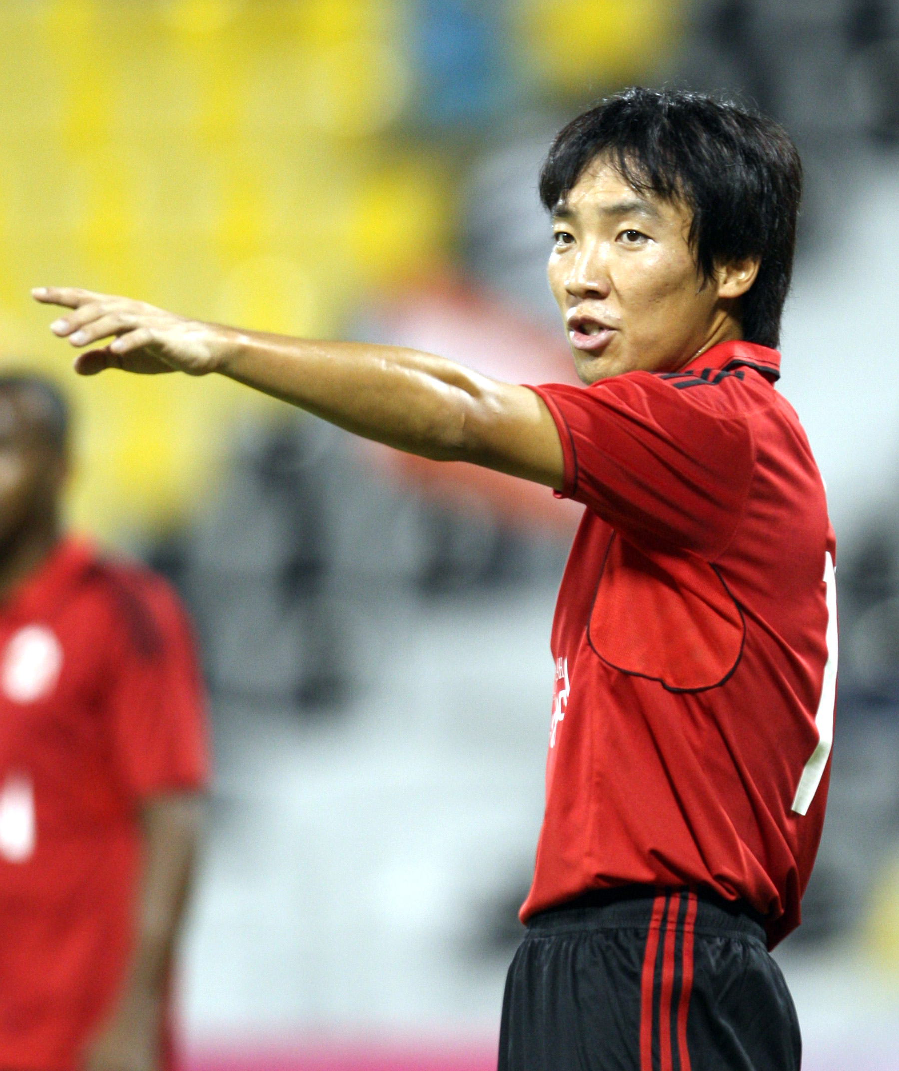 Al Rayyan's South Korean Cho Yong-Hyung gestures during the Qatar Stars League game against Umm Salal. Pic by Mohan